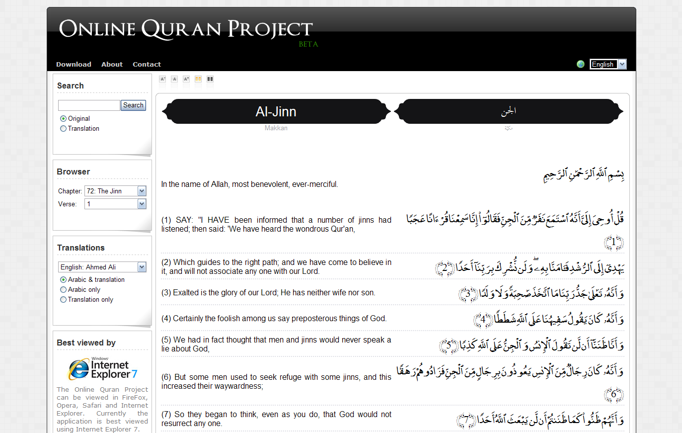 Screenshot of the Online Quran Project (OQP)